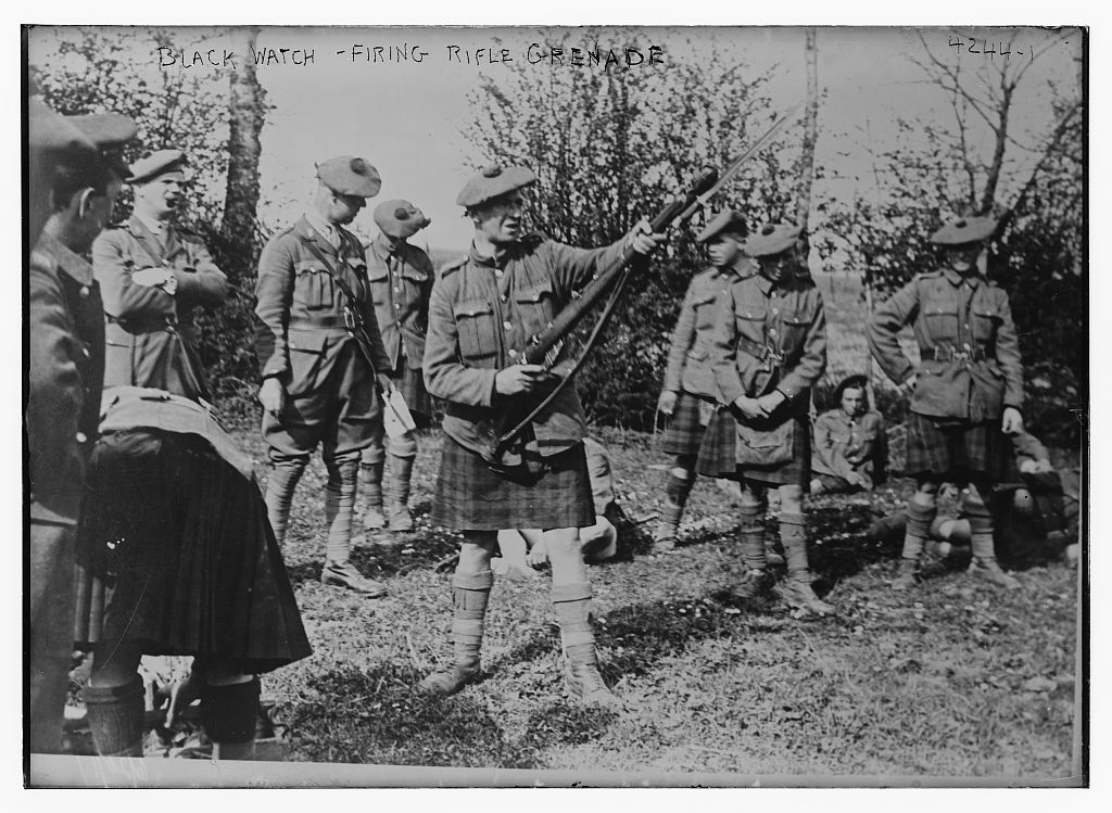 Black Watch firing rifle grenade in 1917